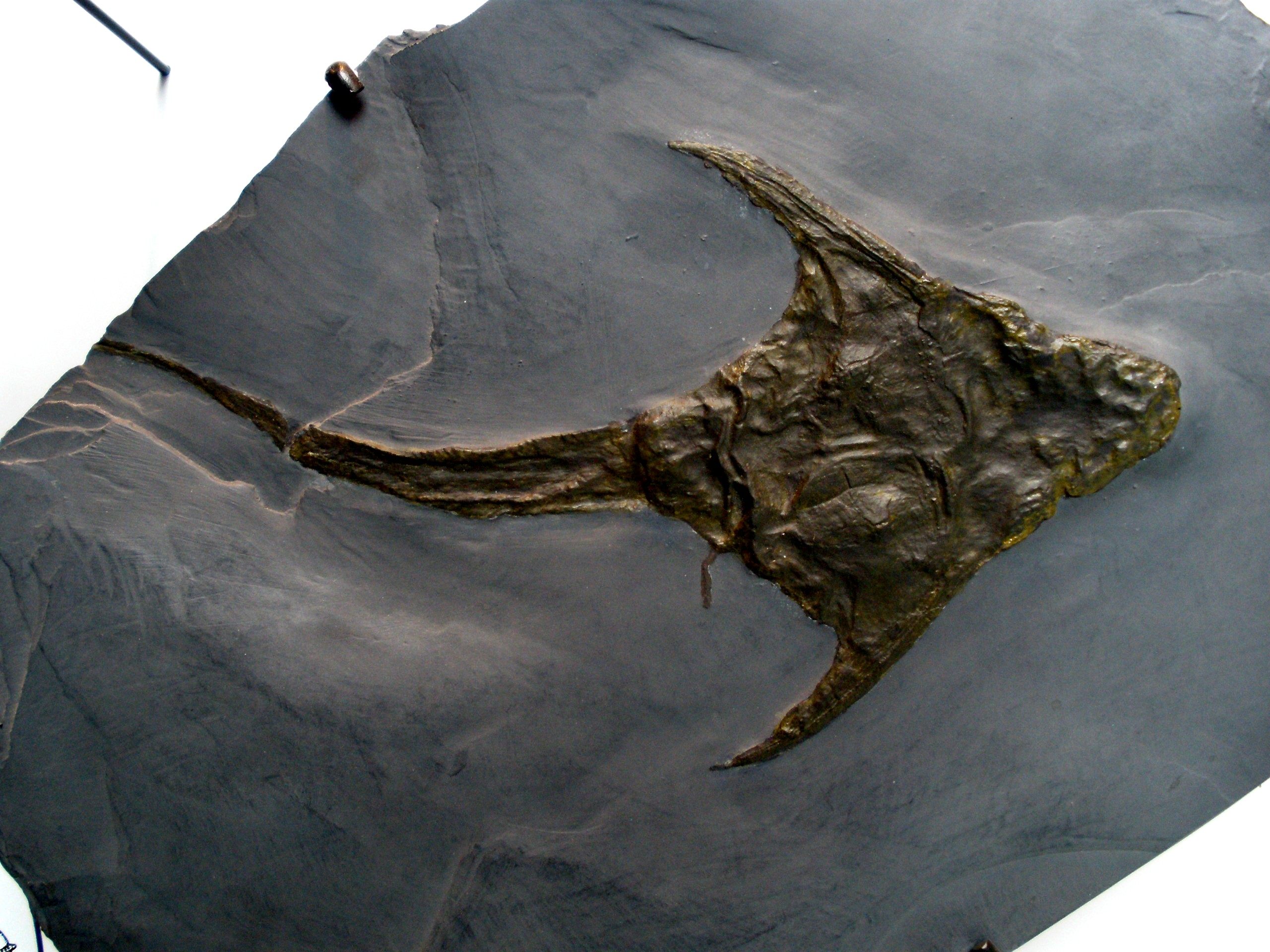 Skeleton of Lunaspis broili, a fossil placoderm